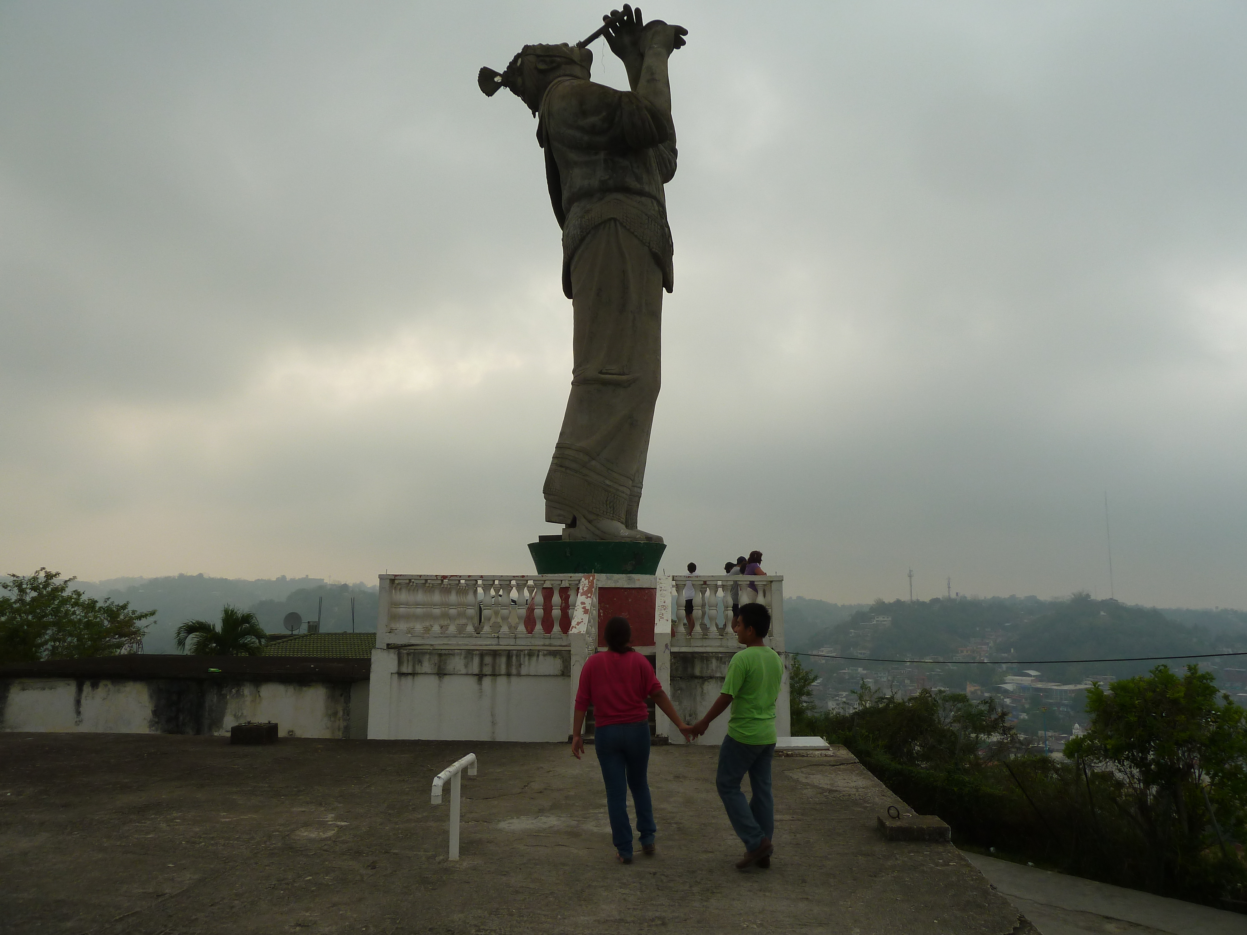 Monumento al Volador, Papantla